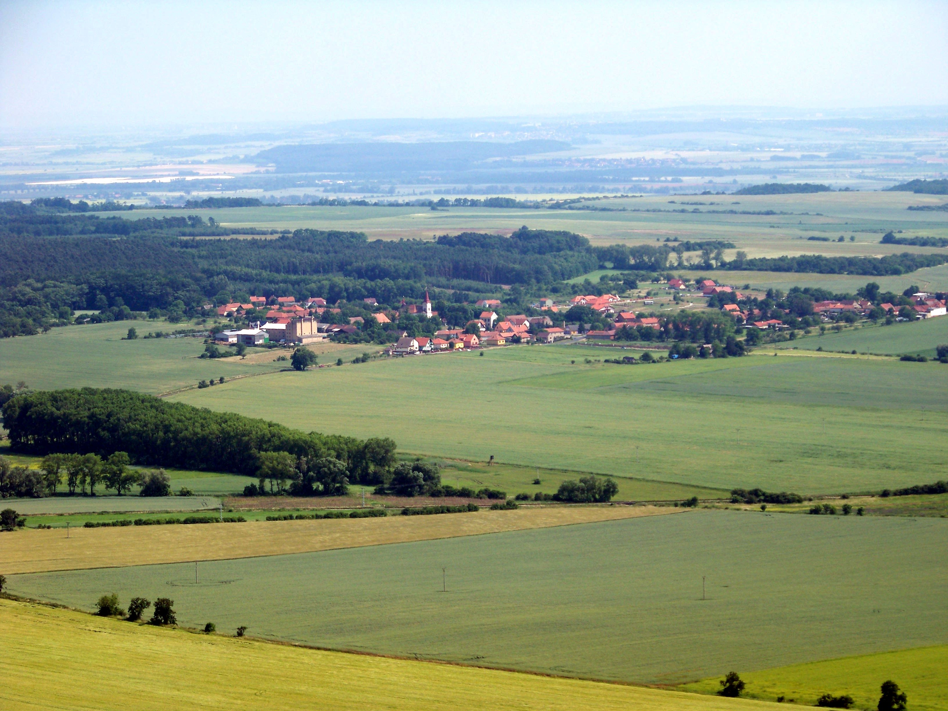 Černouček, Litoměřice District,Ústí nad Labem Region, the Czech Republic. A view from Prague View Point on the Říp Mountain.